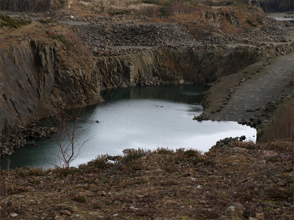 Murrayshall Quarry 8-11-08